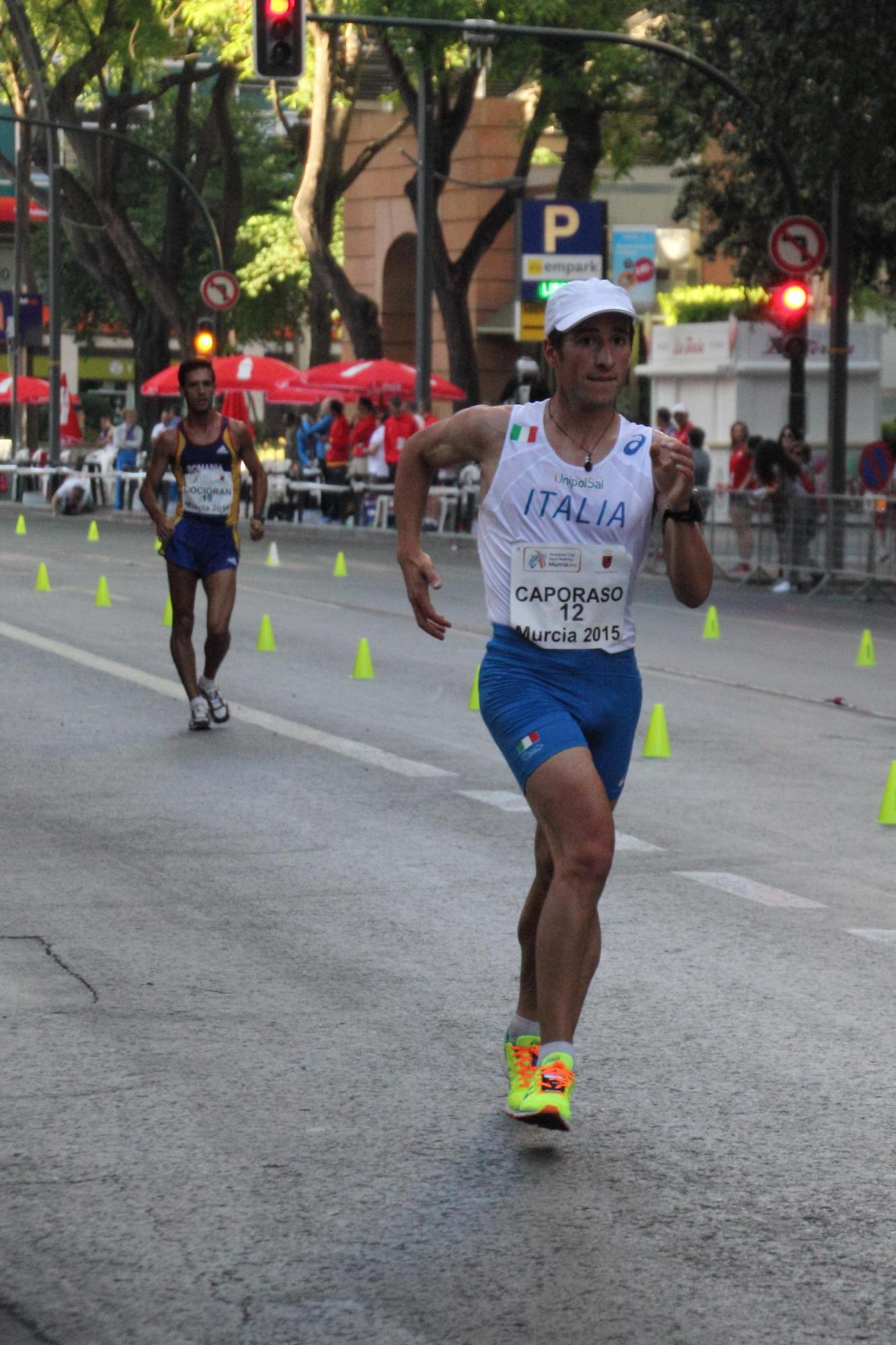 12-Teodorico Caporaso (ITA) in the European Cup Race Walking 2015 (Murcia, Spain).